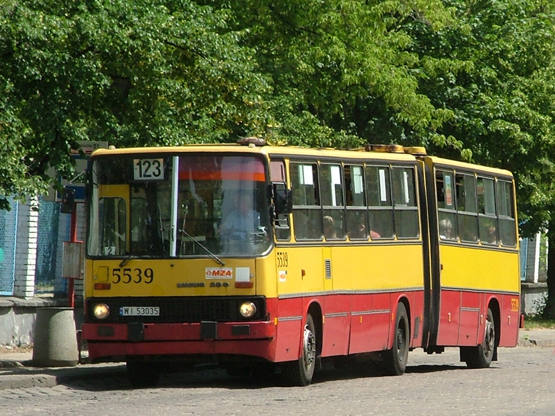 Warsaw, Poland, Praga Południe, Grochów, Chrzanowskiego Street. Ikarus 280.70E bus (#5539) built 1995, MZA Warszawa operator.